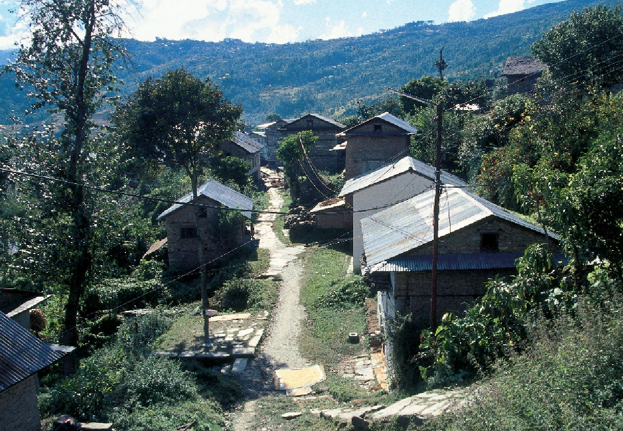 More than thirty years later. The straw roofs have been replaced with corrugated iron roofs, which is a clear indicator of a higher standard of living. A small hydropower station supplies the surrounding villages with electricity. Photo:Fritz Berger